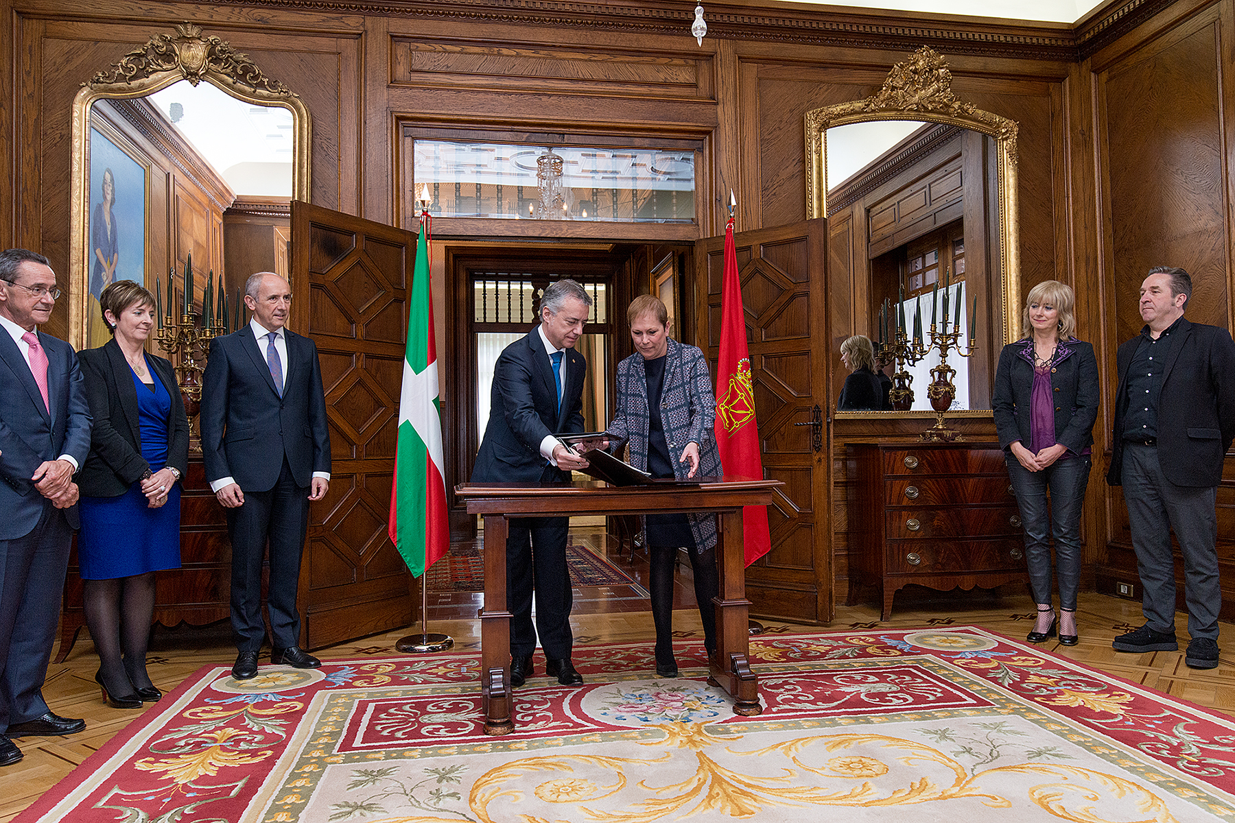 El Lehendakari Iñigo Urkullu recibe a la Presidenta del Gobierno de Navarra, Uxue Barkos, en el Palacio de Ajuria Enea.